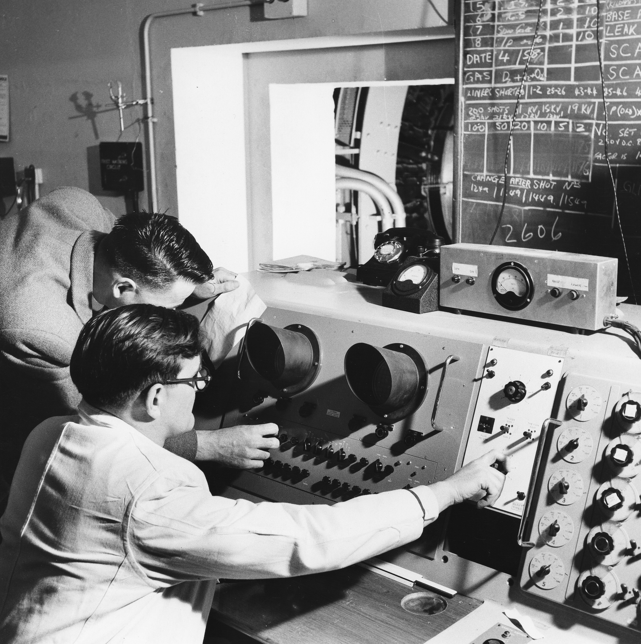 The operator's console of the ZETA reactor during a "shot". The reactor itself can be seen through the window. The blackboard above the console indicates the shot gasses will include deuterium, hydrogen and oxygen.